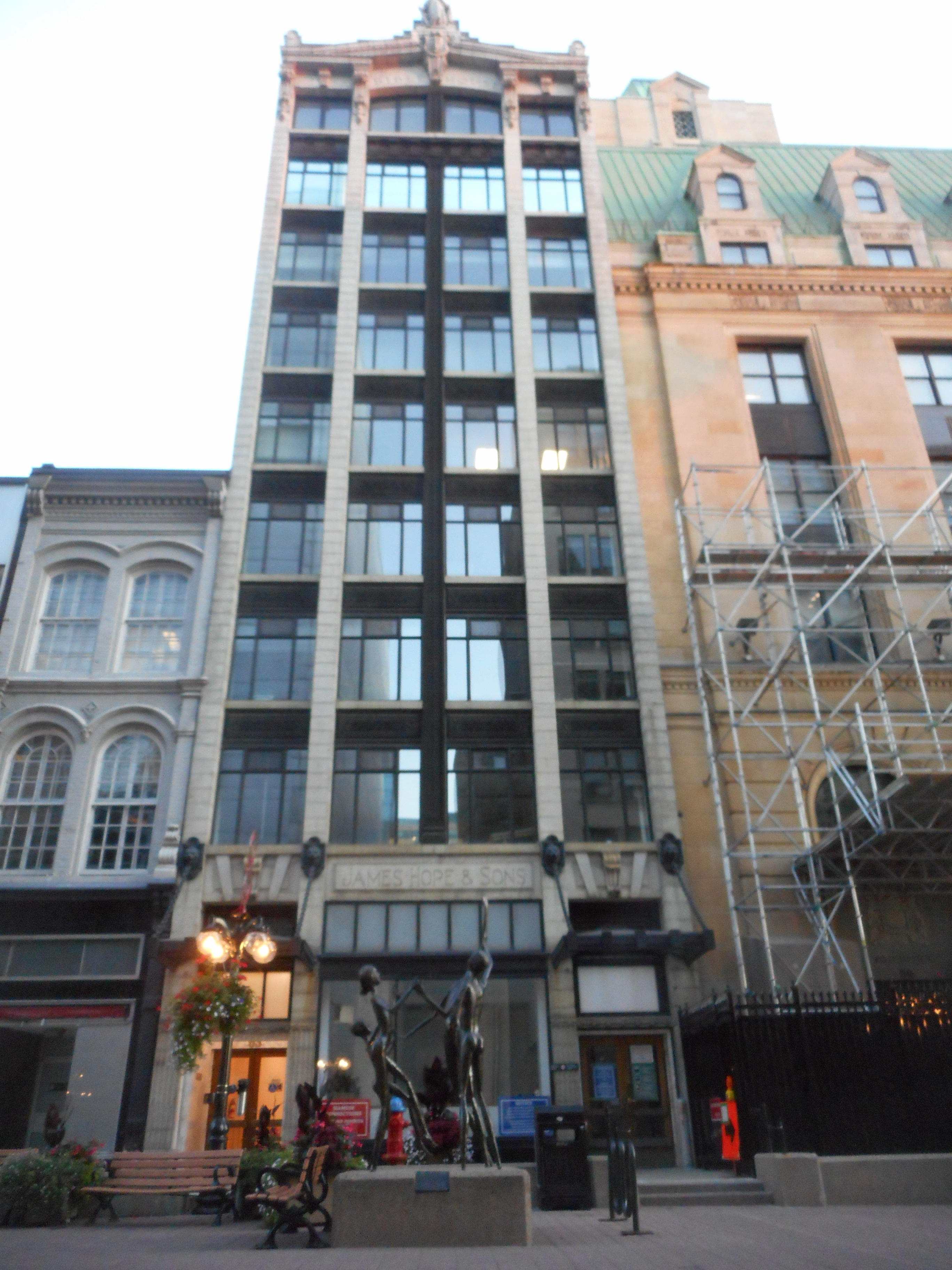 Joy by Bruce Garner, on Sparks Street, Ottawa Hope Chambers/Bible House (1910, W.E. Noffke, Architect).